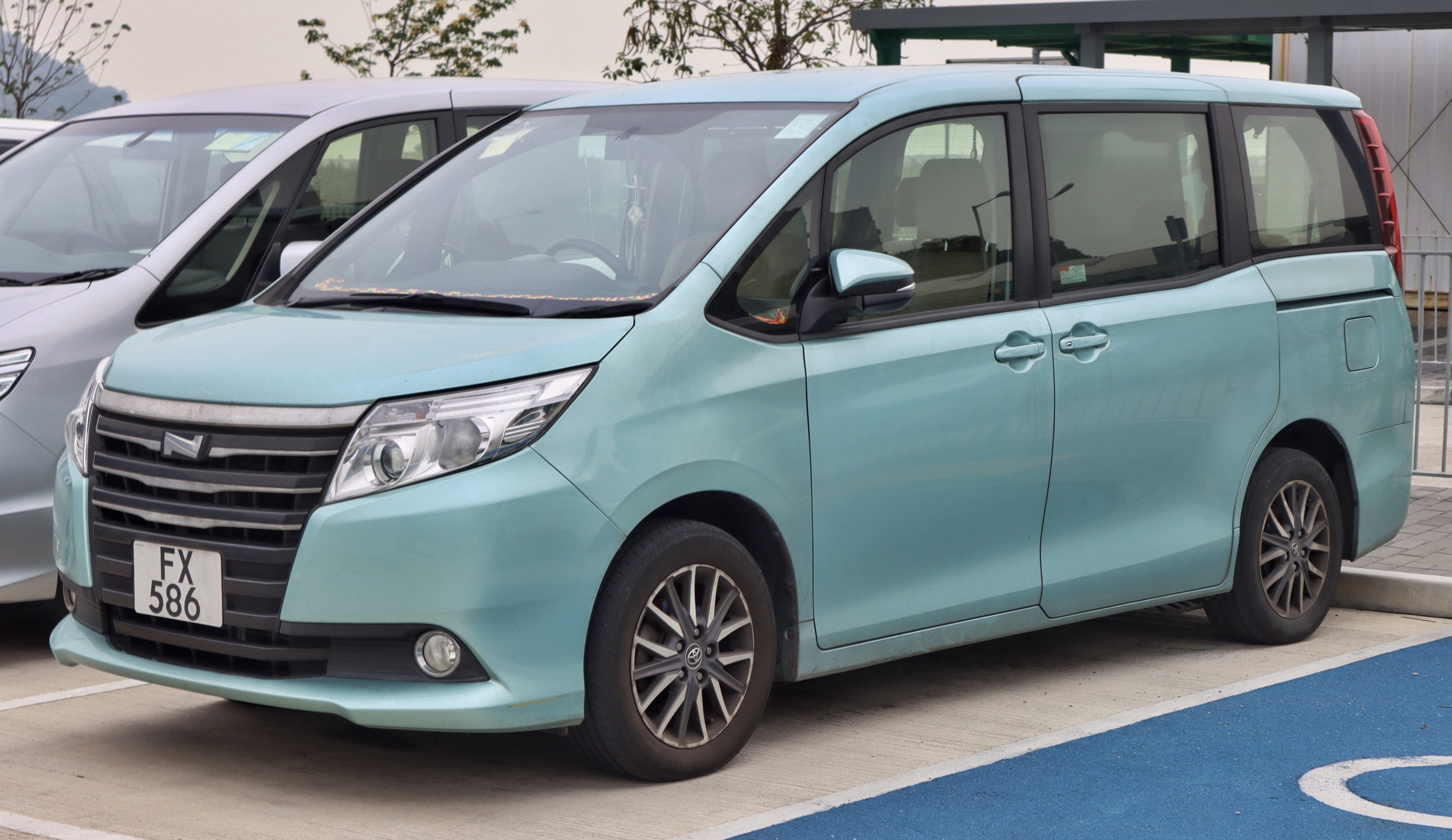 A 2014 Toyota Noah taken in Tai O, Lantau Island, Hong Kong